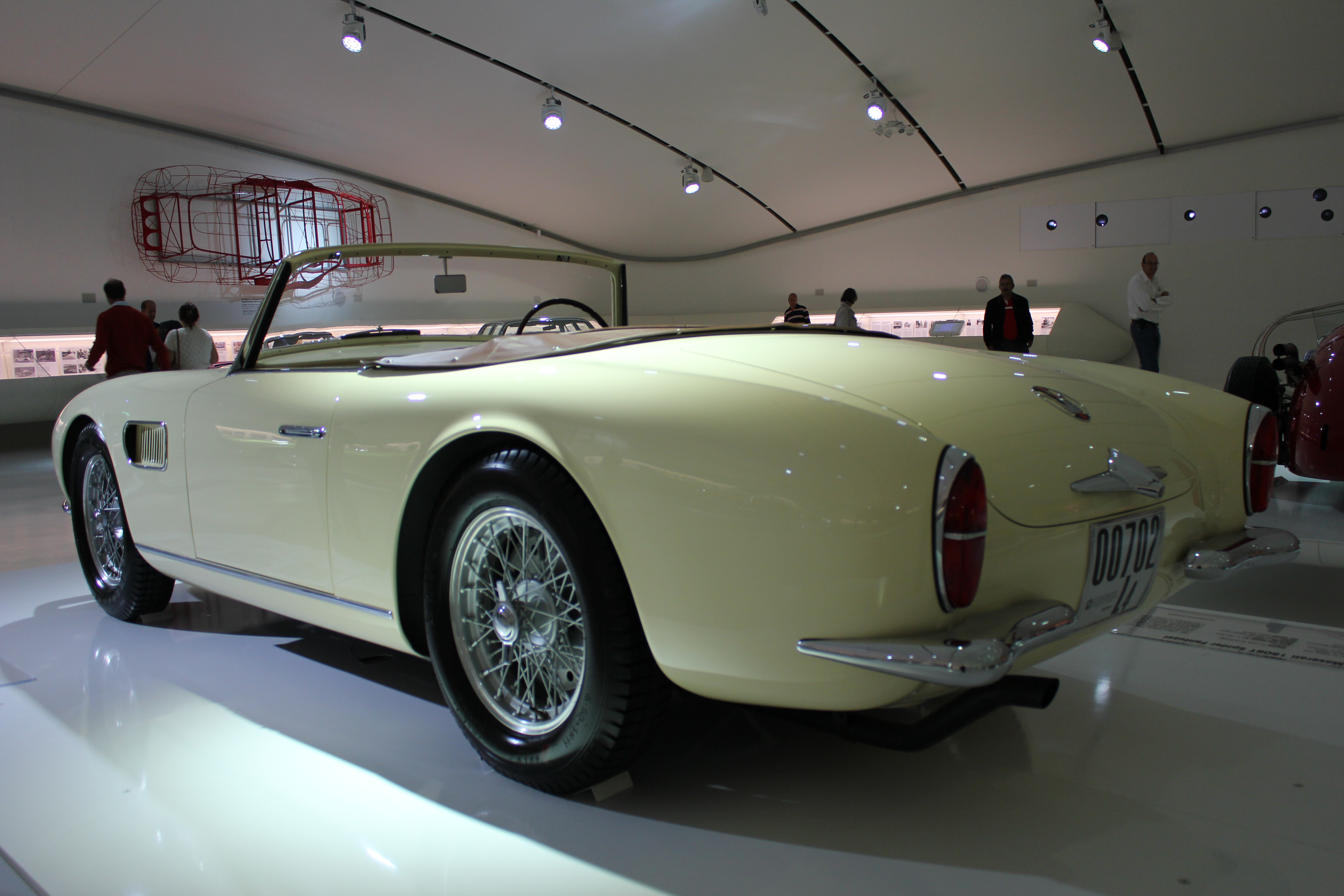 Maserati 150 GT Spyder Fantuzzi. "Maserati 100 - A Century of Pure Italian Luxury Sports Cars" exhibition at the Museo Enzo Ferrari, Modena, Italy.